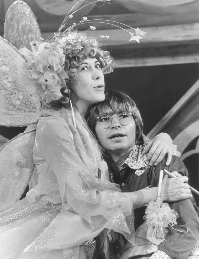 Publicity photo of Lily Tomlin and John Denver from the television John Denver Special.